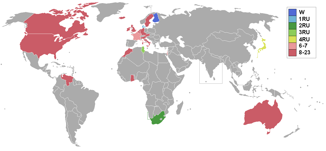 Countries and territories which sent delegates and results.